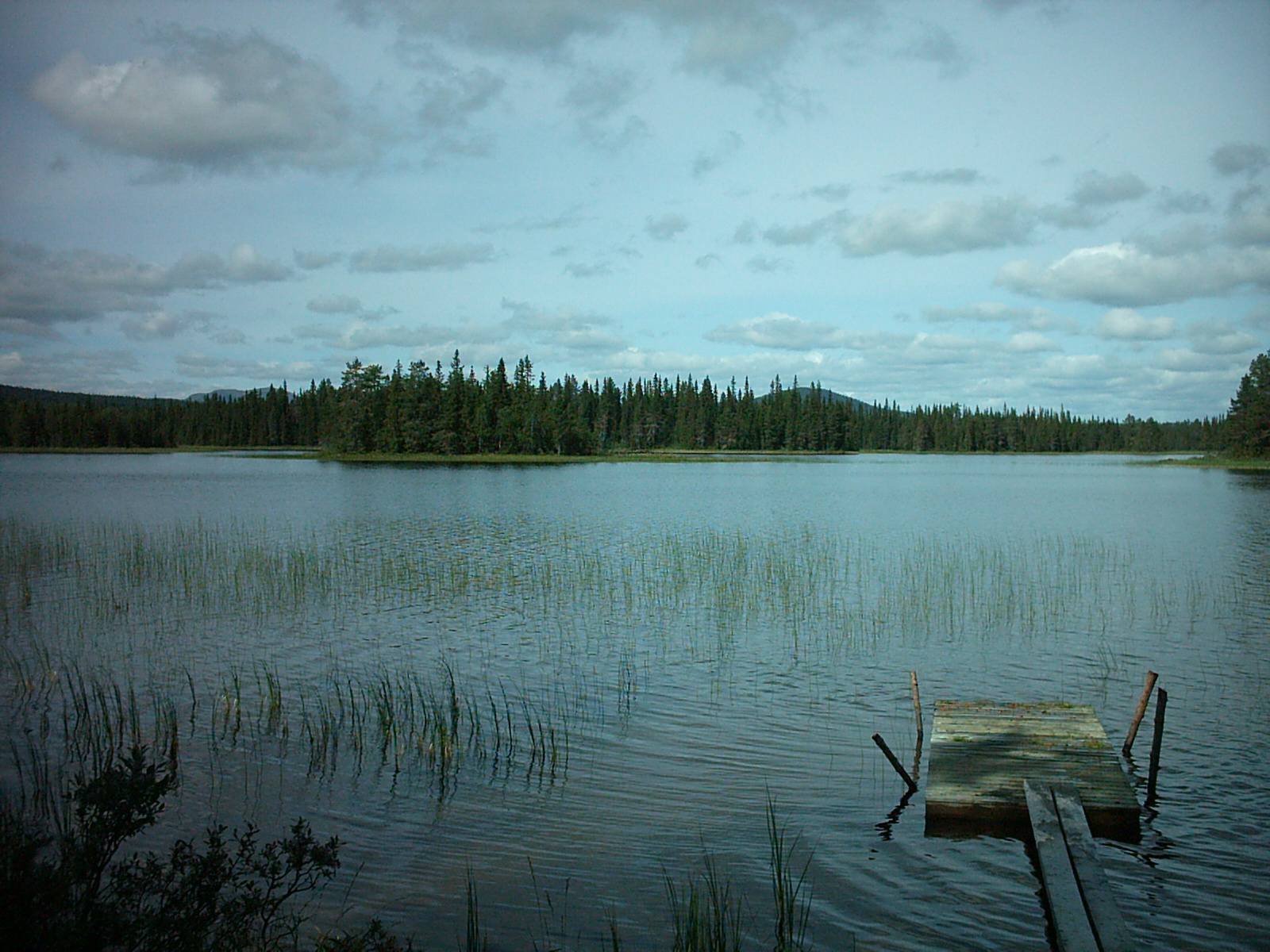 A view from Öjarssjön(lake öjarn)